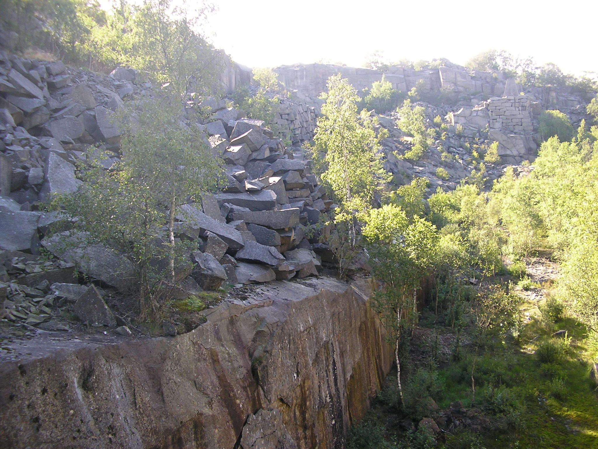 Abandoned granite quarry in Ed (Härnäset, Lysekil Municipality, Bohuslän, Sweden).